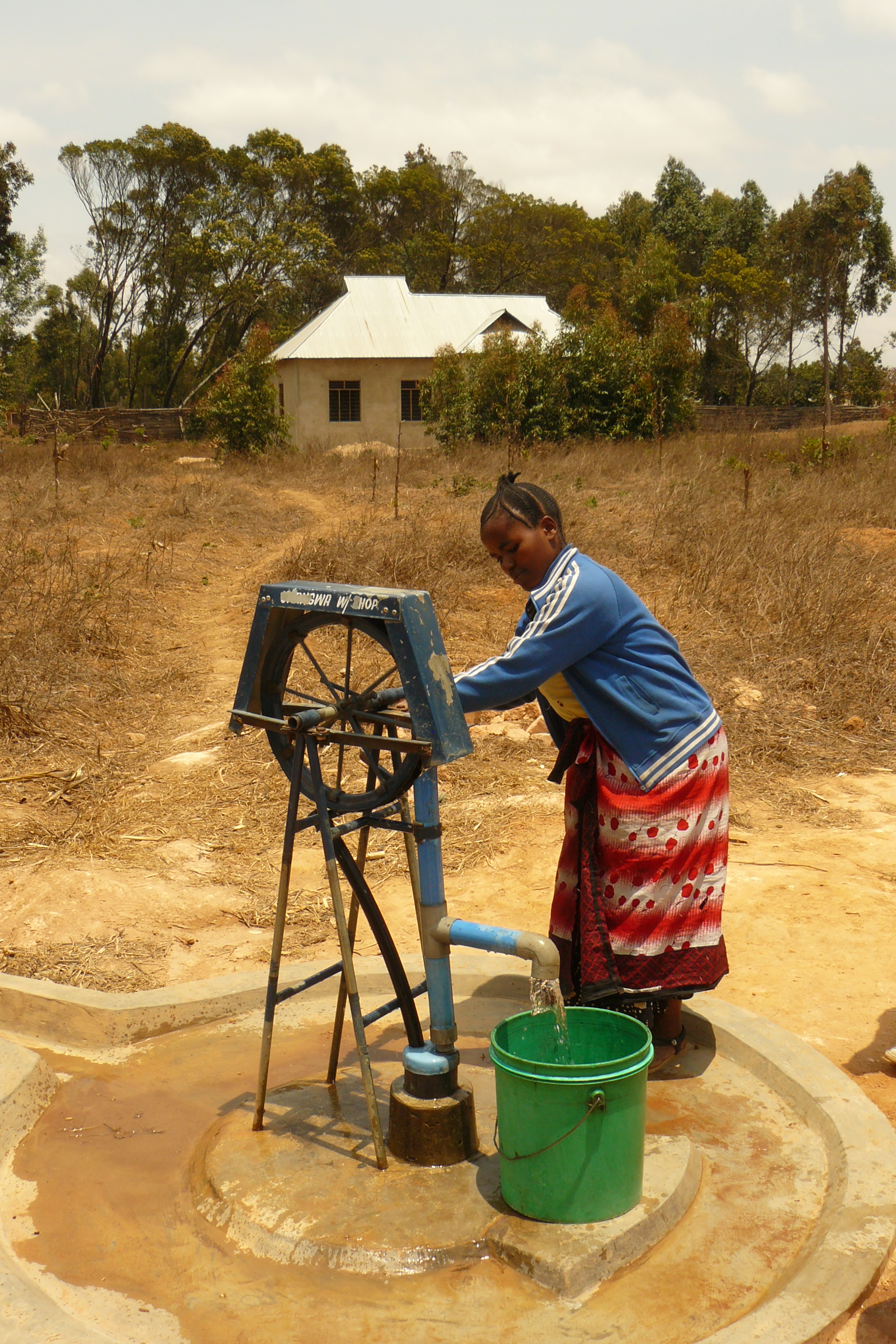 A woman is using the Rope Pump of her neighbour to draw water for her own use.